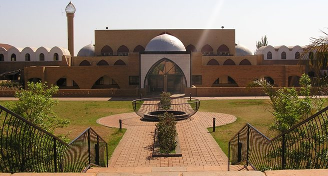 The entrance Masjid prayer of Darul Uloom Zakariyya